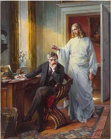 Self-portrait with Apparition of Christ (oil on canvas version)